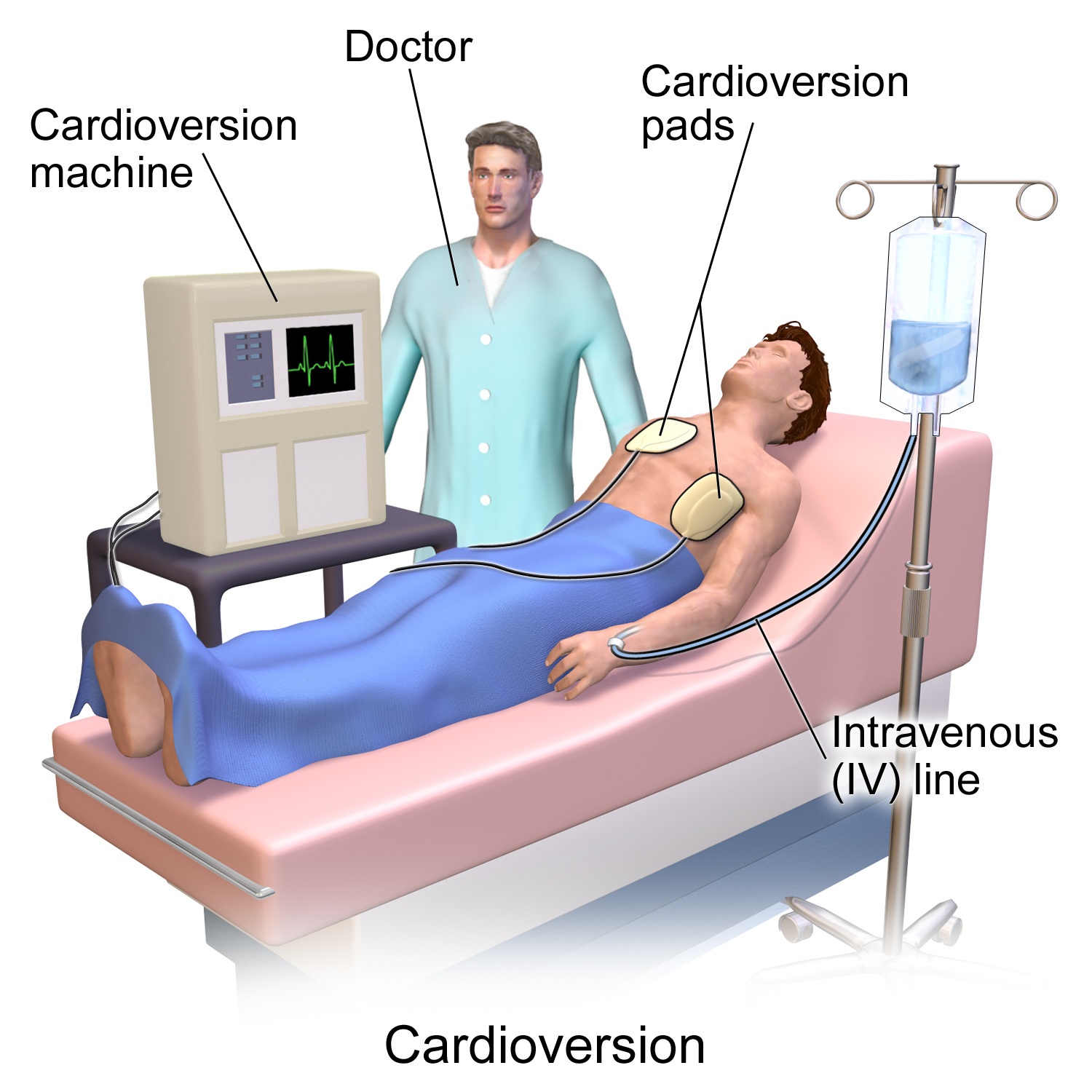 Cardioversion. This image was donated by Blausen Medical. Please visit our website to see more medical illustrations and animations.